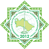 Turkmen Census of 2012